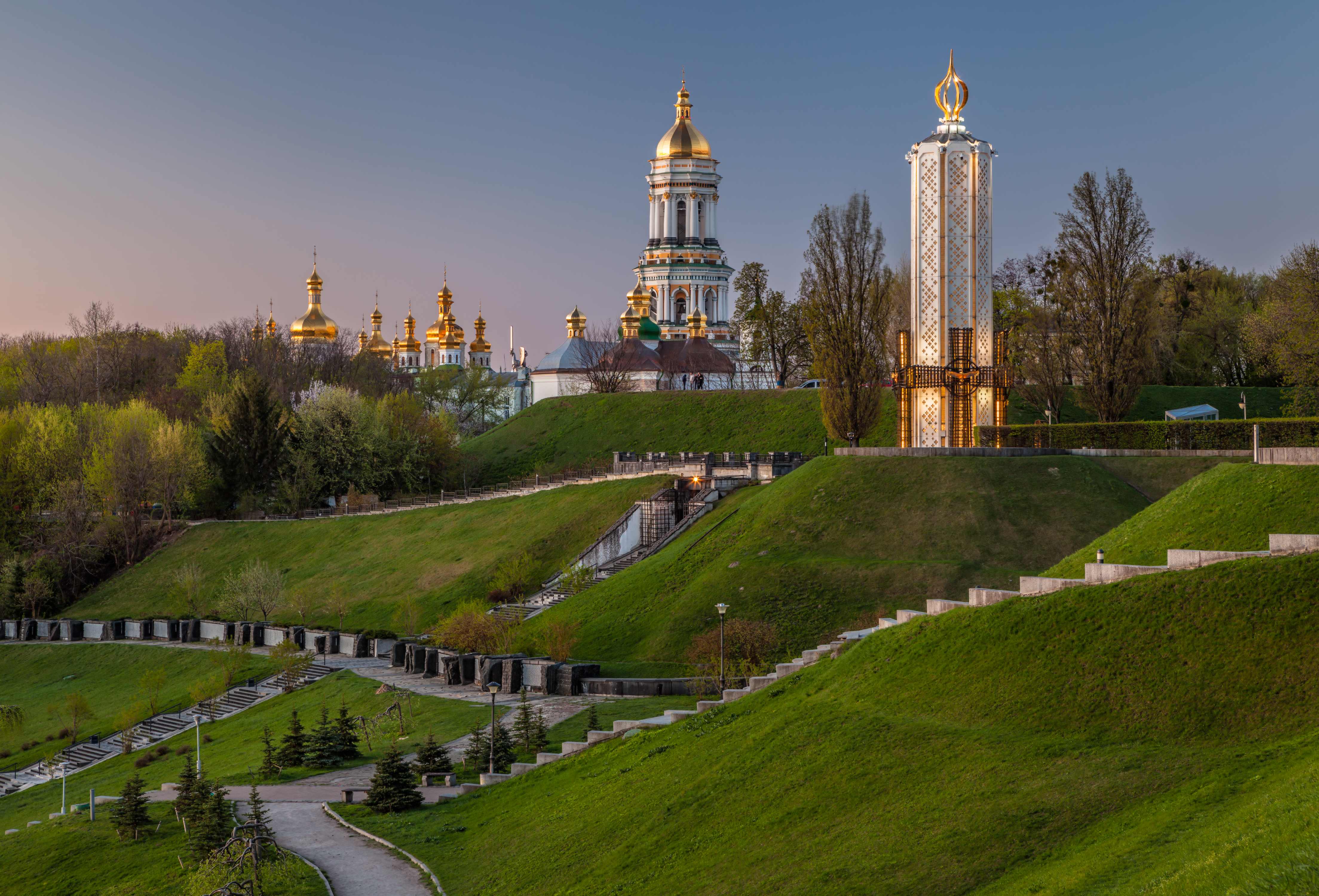 Kyiv Pechersk Lavra, Kiev, Ukraine.